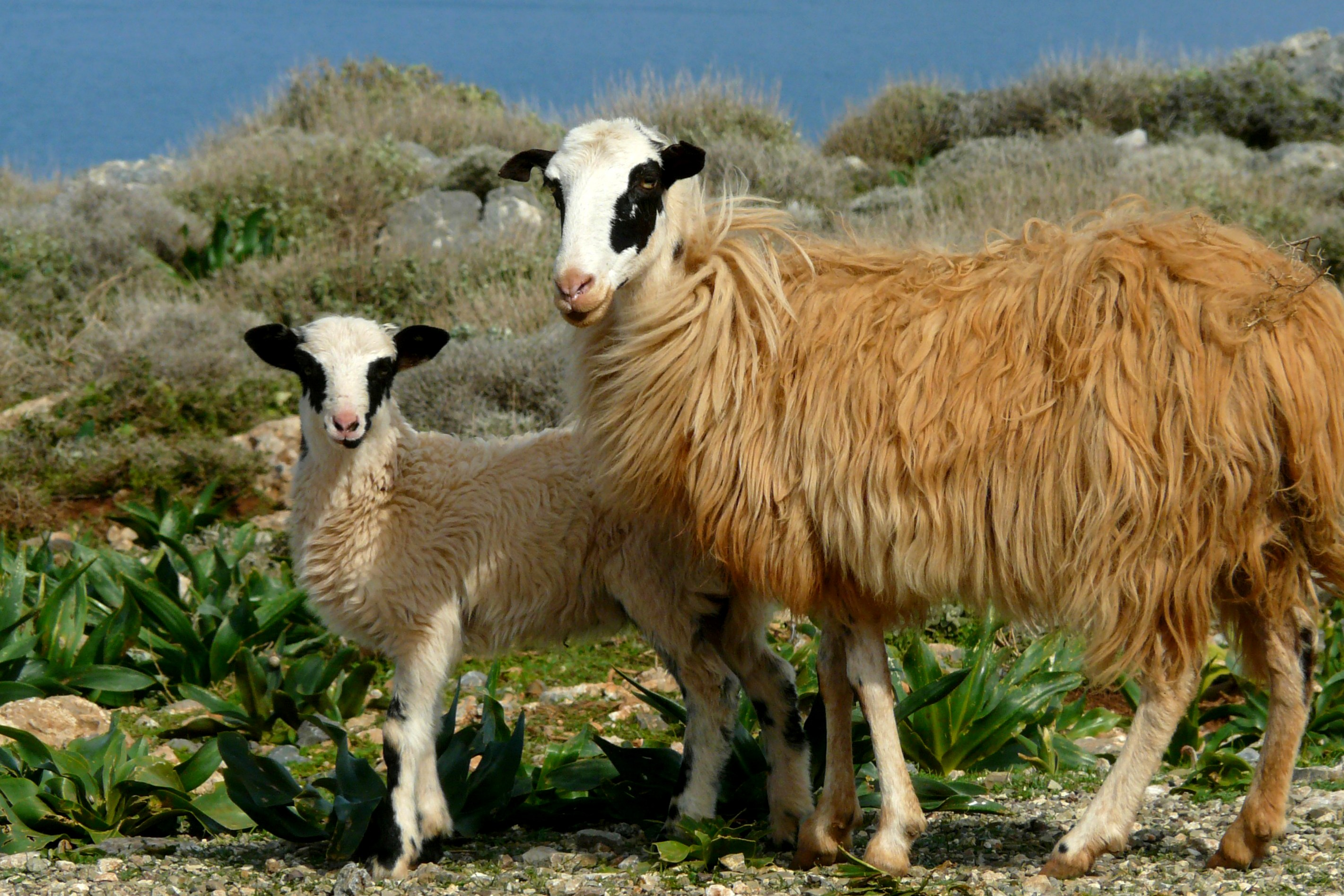 Sheep in North-East Crete, Greece